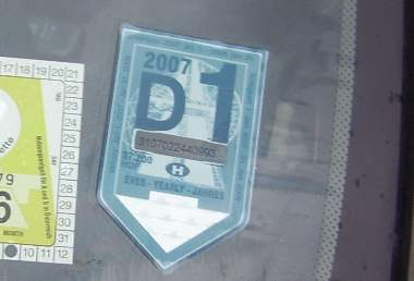 Hungarian motorway vignette, 2007